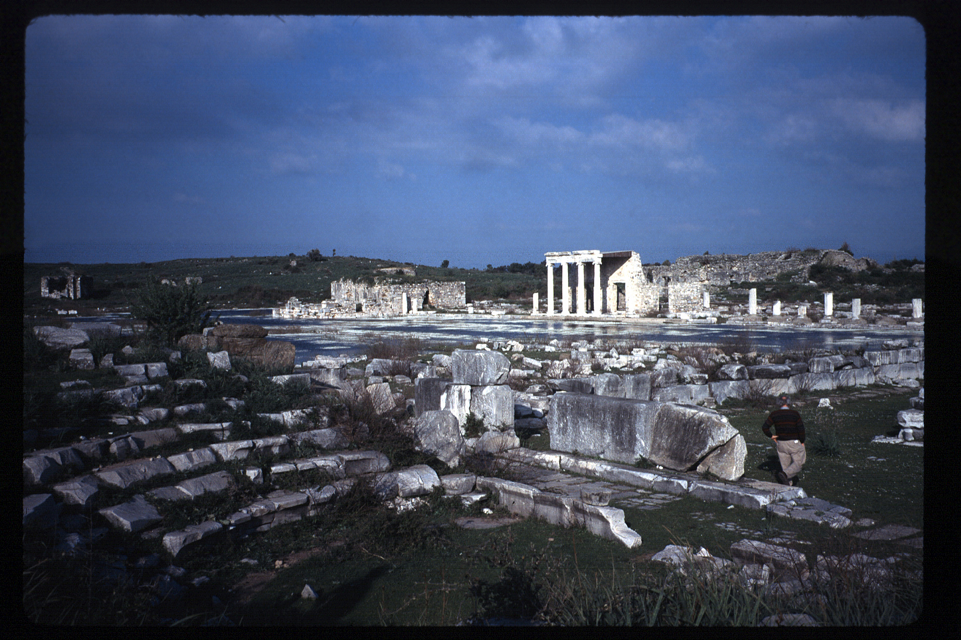 AWIB-ISAW: Miletos (V) A general overview of the ruins at Miletos, including the small theater (foreground) and Ionic Stoa along the Sacred Way (background). by John Hansen copyright: John Hansen (used with permission) photographed place: Miletos Published by the Institute for the Study of the Ancient World as part of the Ancient World Image Bank (AWIB). Further information